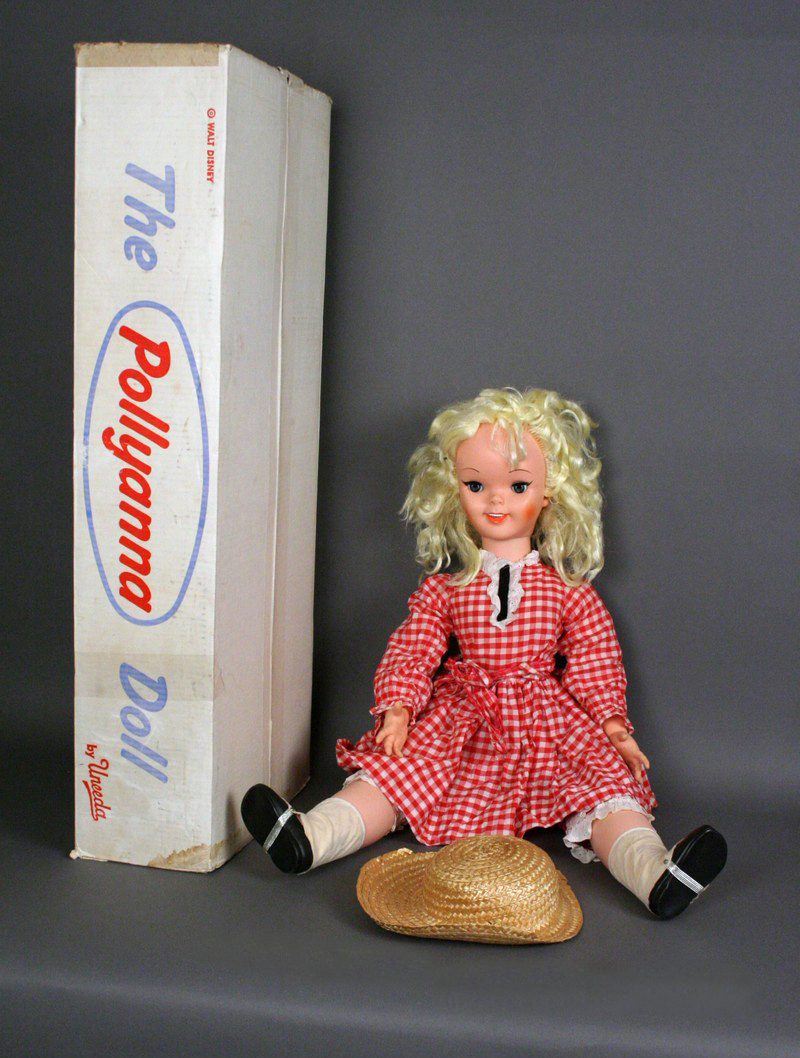 Large Vinyl Pollyanna Doll